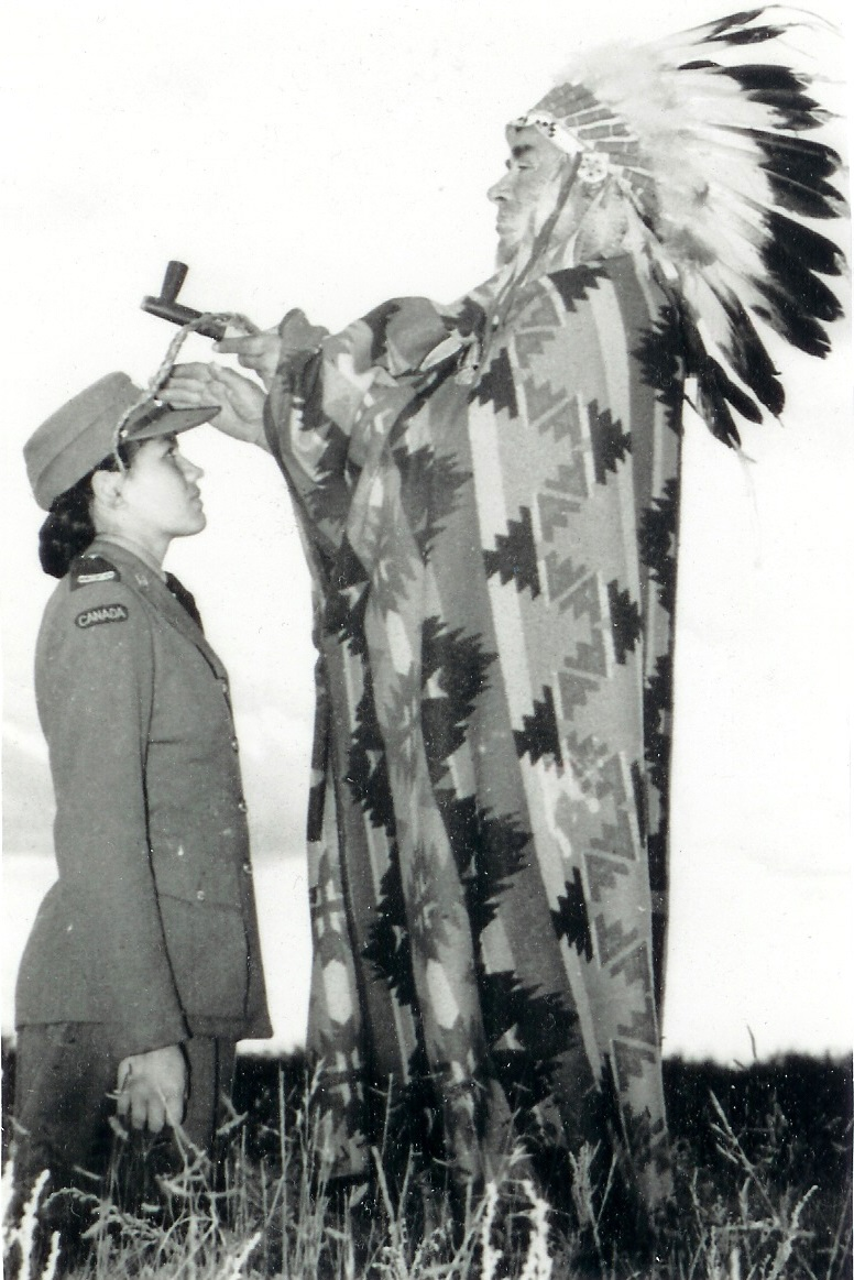 Mary Greyeyes, a Cree from Muskeg Lake Reserve, served in the Canadian Women’s Army Corps in Canada and Britain.